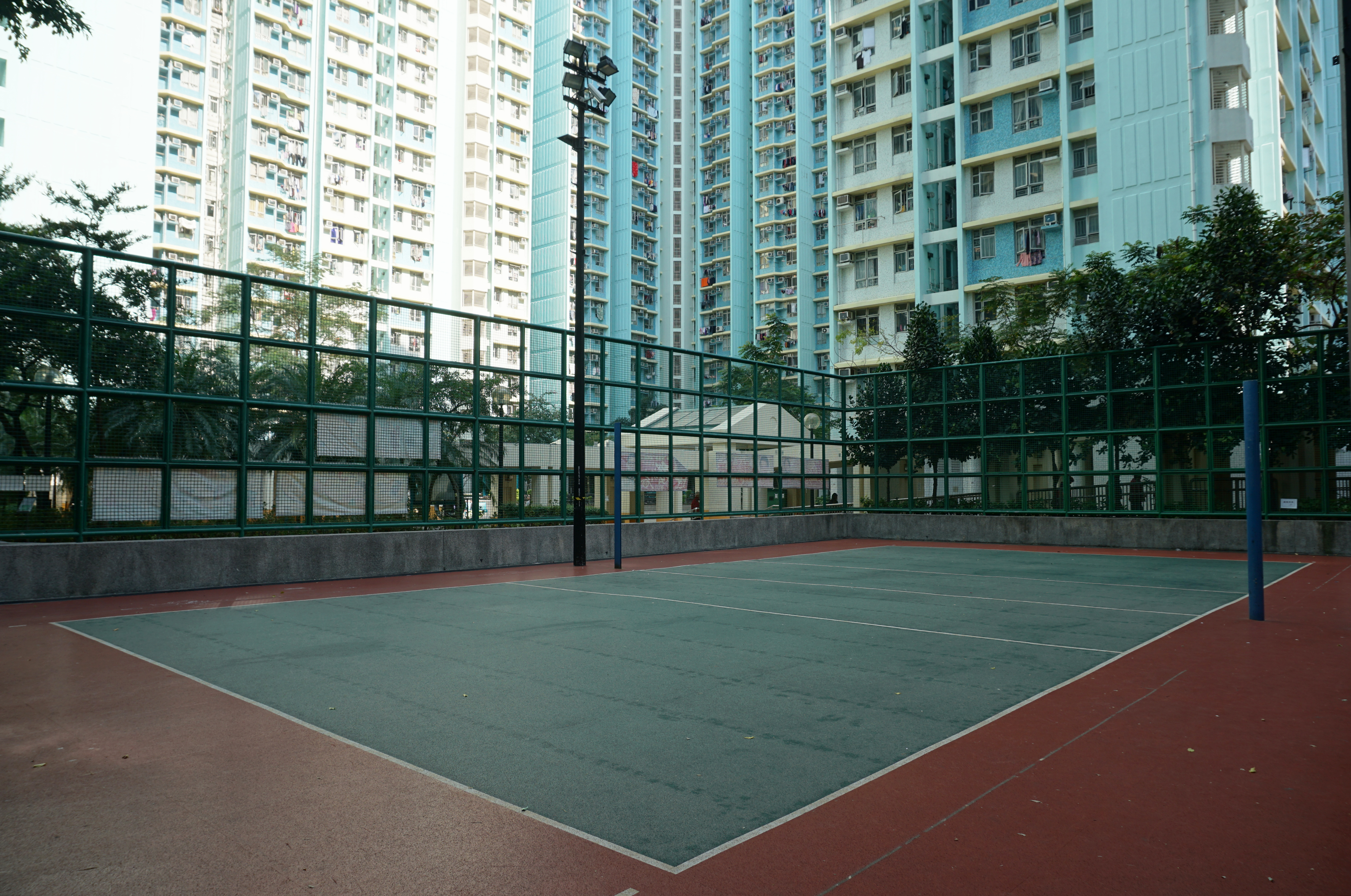 Fu Cheong Estate in Sham Shui Po, Hong Kong.